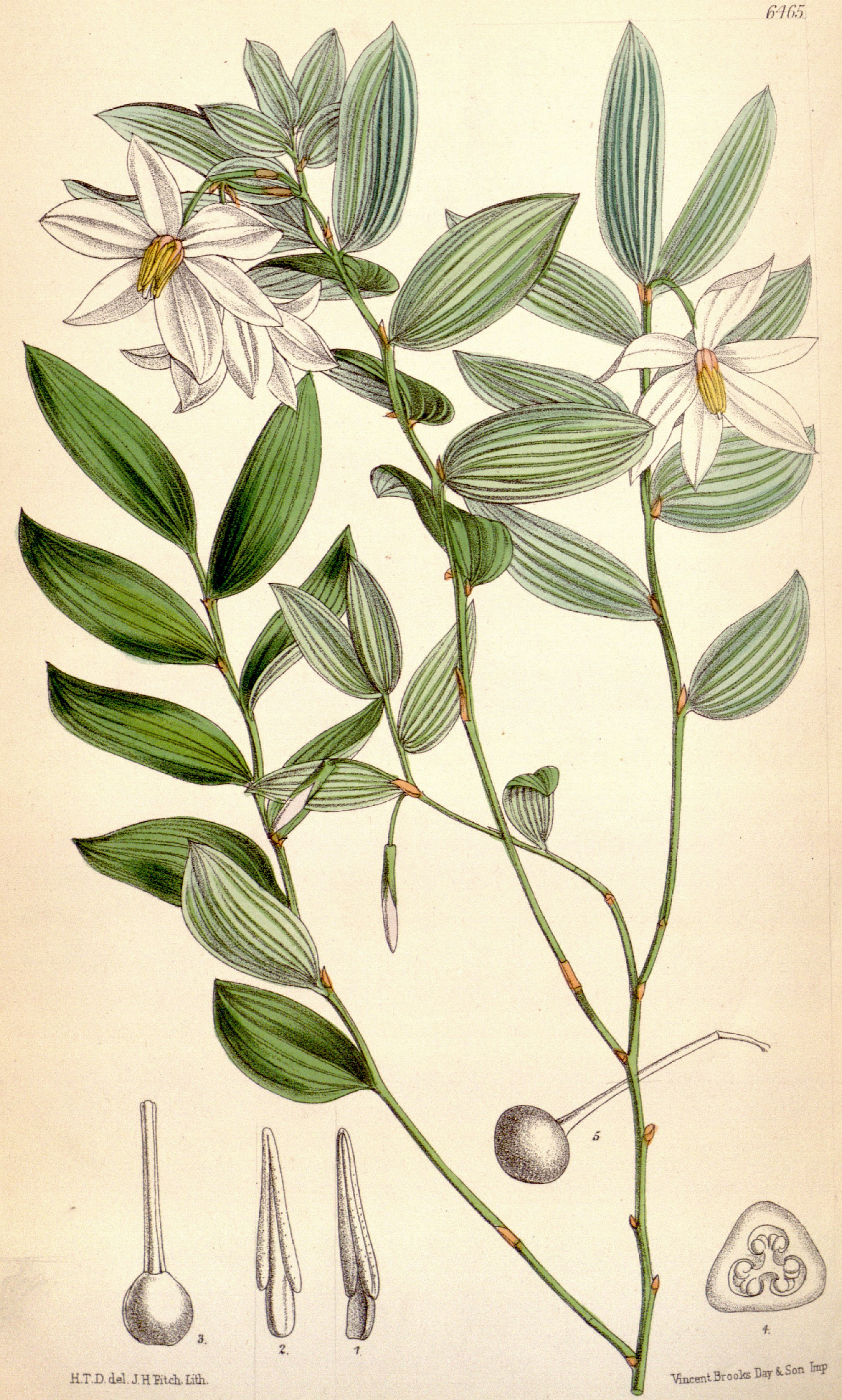 Luzuriaga radicans